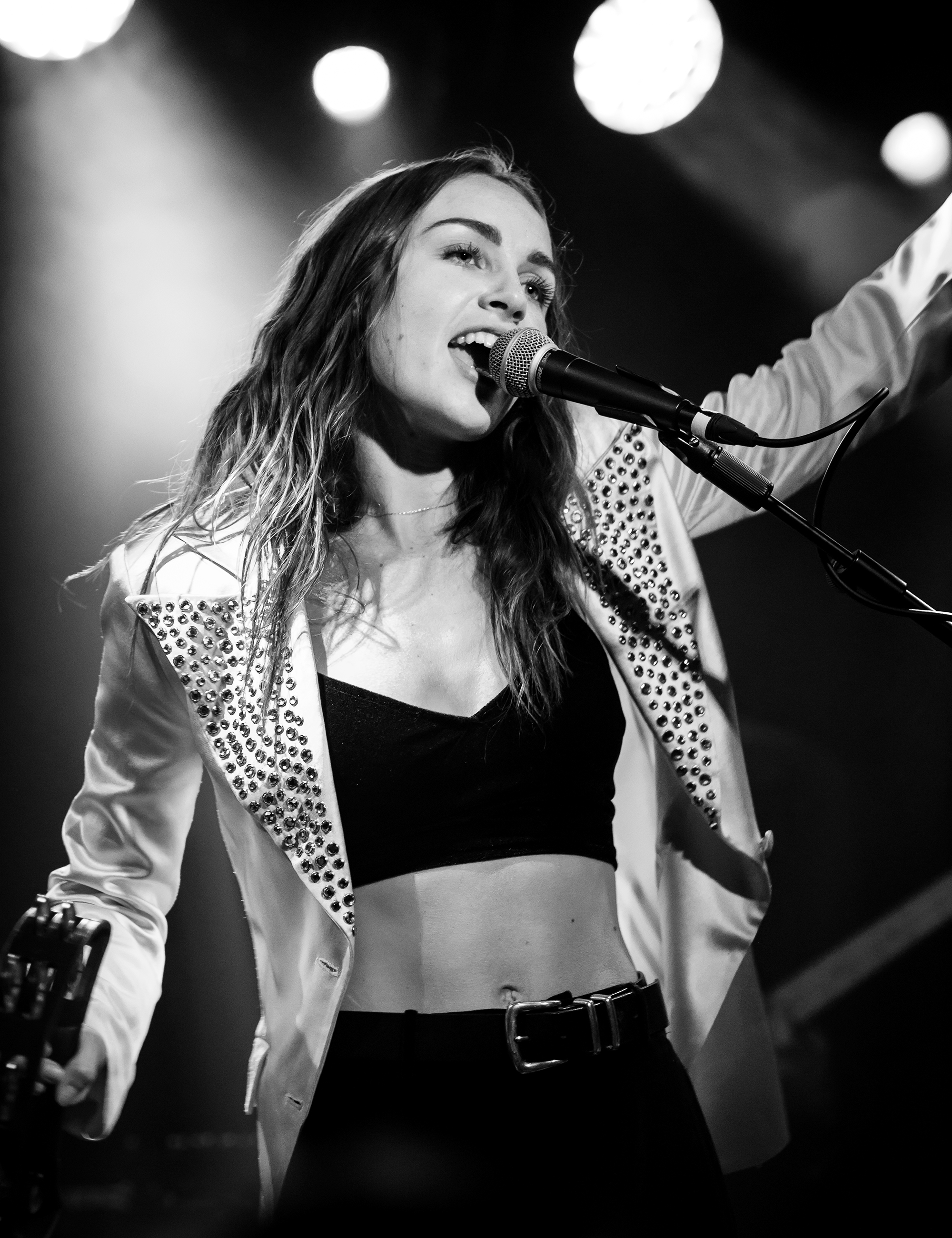 Zella Day performing live at the Moroccan Lounge in downtown Los Angeles, California, on Tuesday, November 21, 2017. Zella was the special guest of Korey Dane.